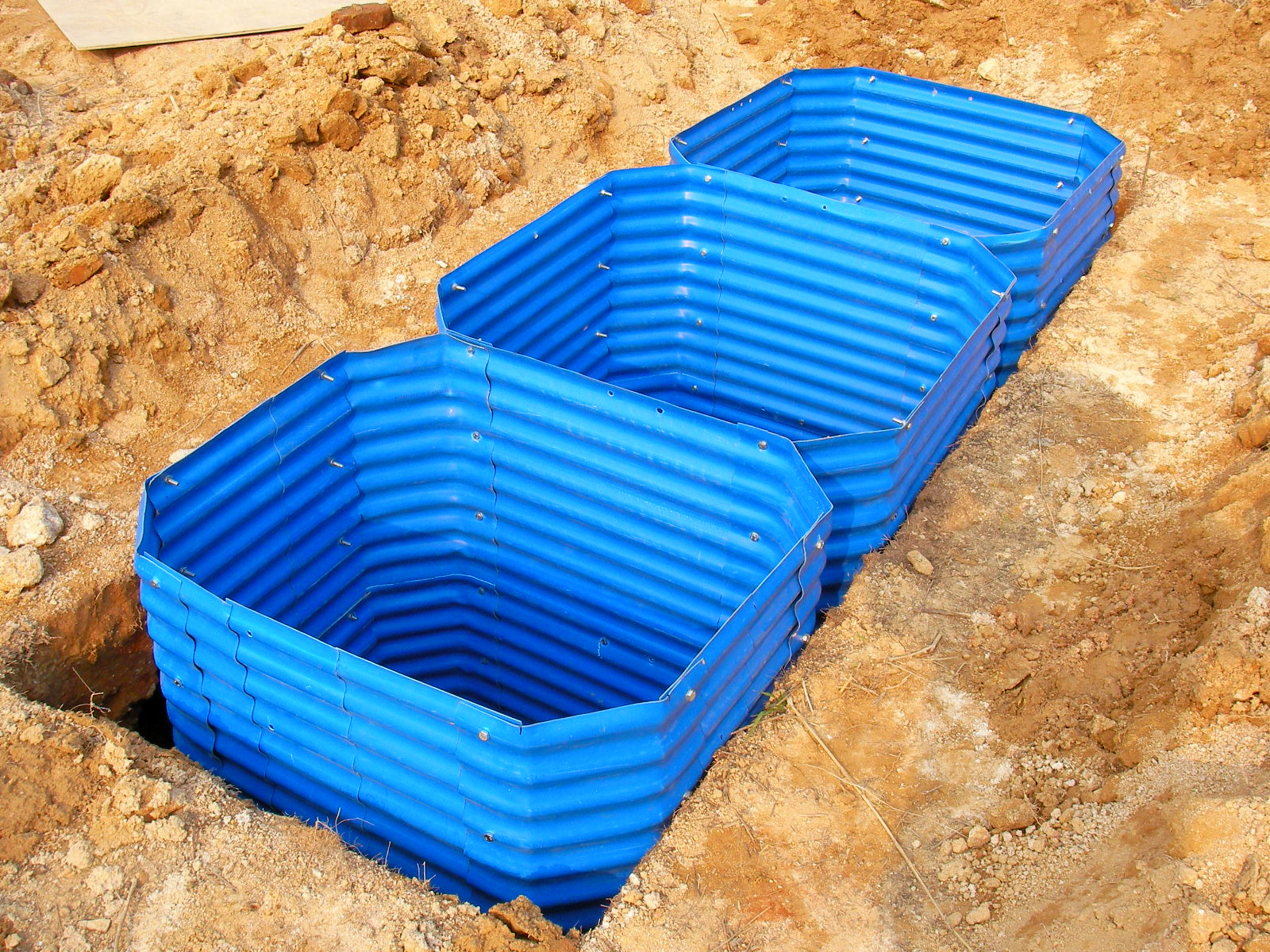 Emergency pit lining kits to avoid collapsing of pits. Modular corrugated plastic pit liners Photo by: Jenny Rhode, 2011